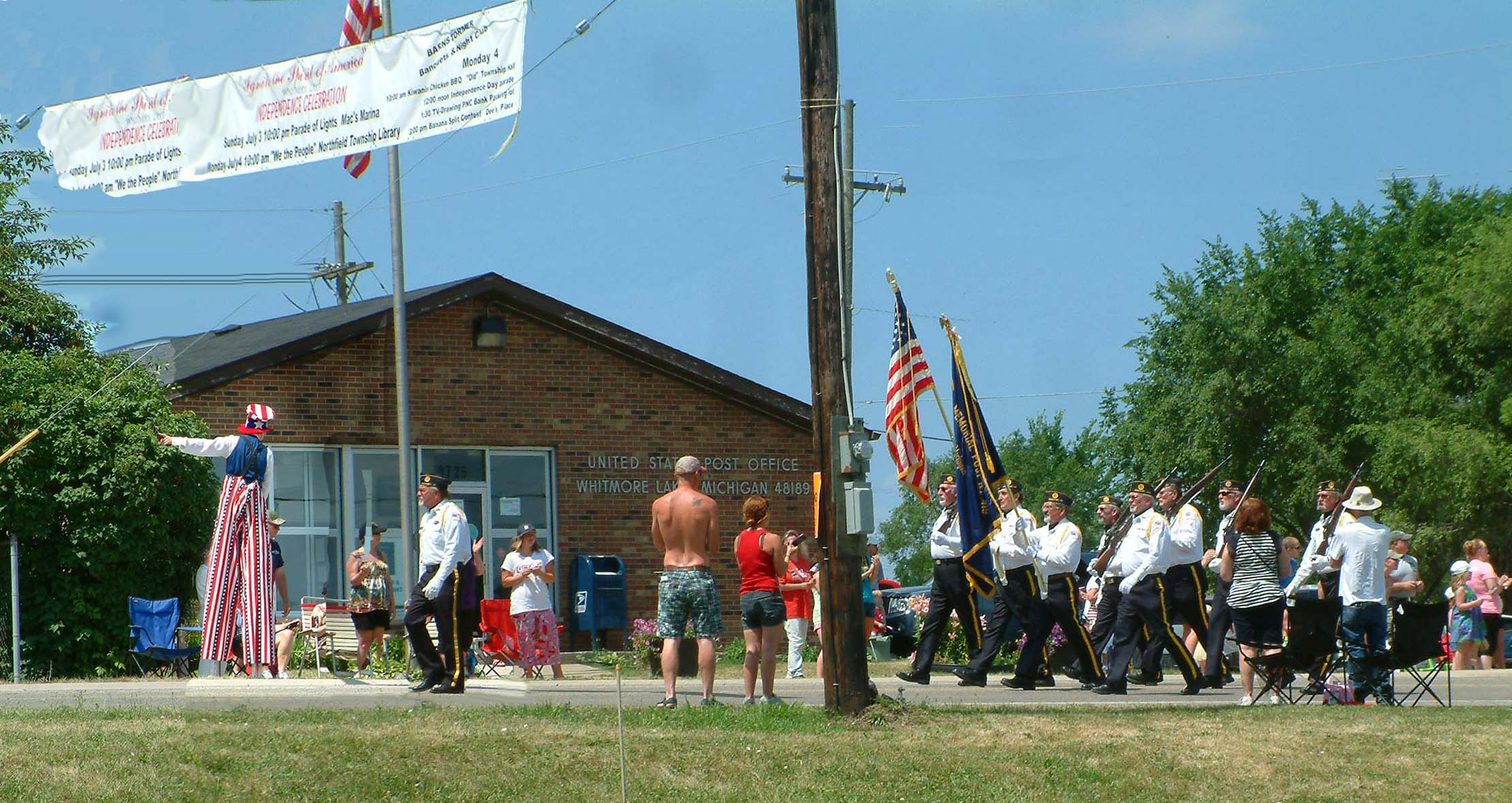 photo of the 4th of July, 2011 parade in Whitmore Lake, Michigan USA